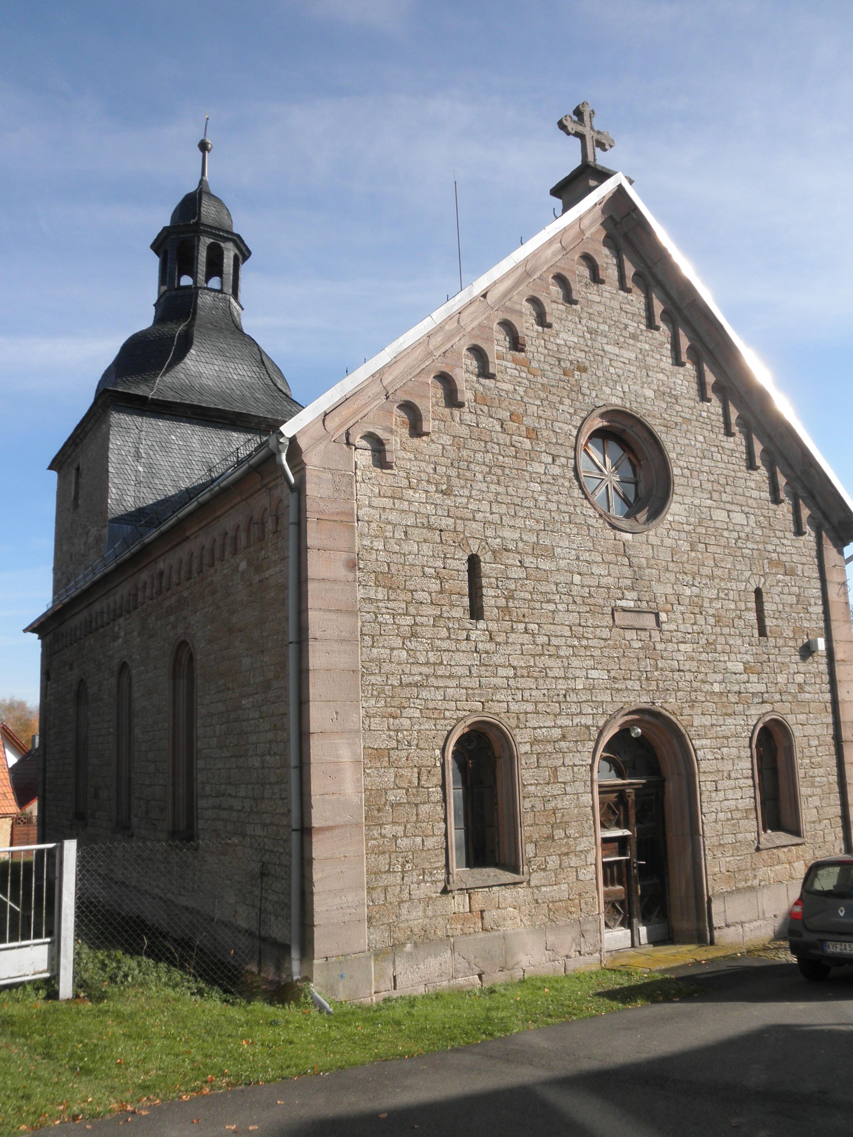 Church in Thüringenhausen in Thuringia